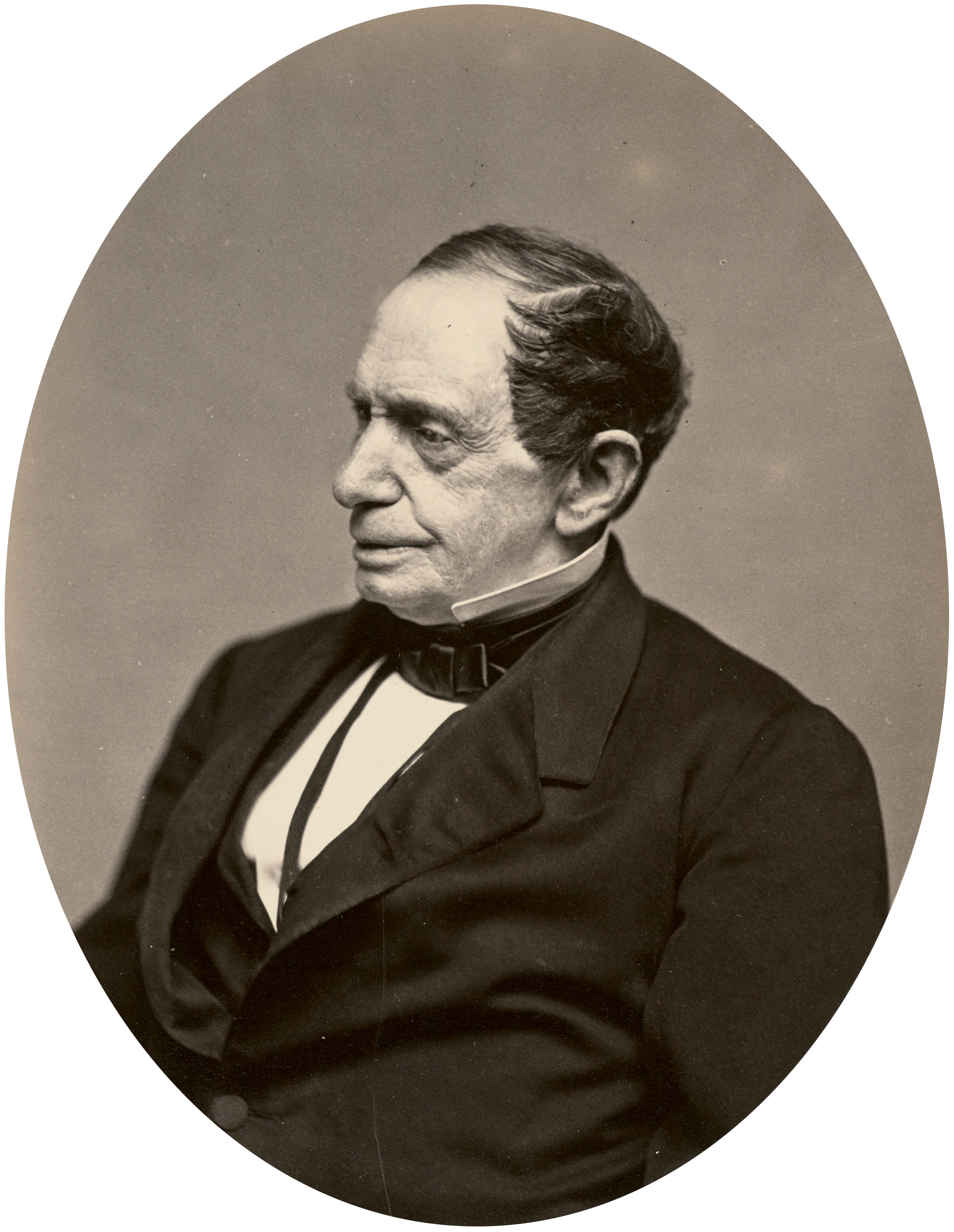 Portrait of Johns Hopkins